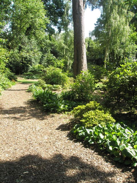 A peaceful June scene at RHS Wisley